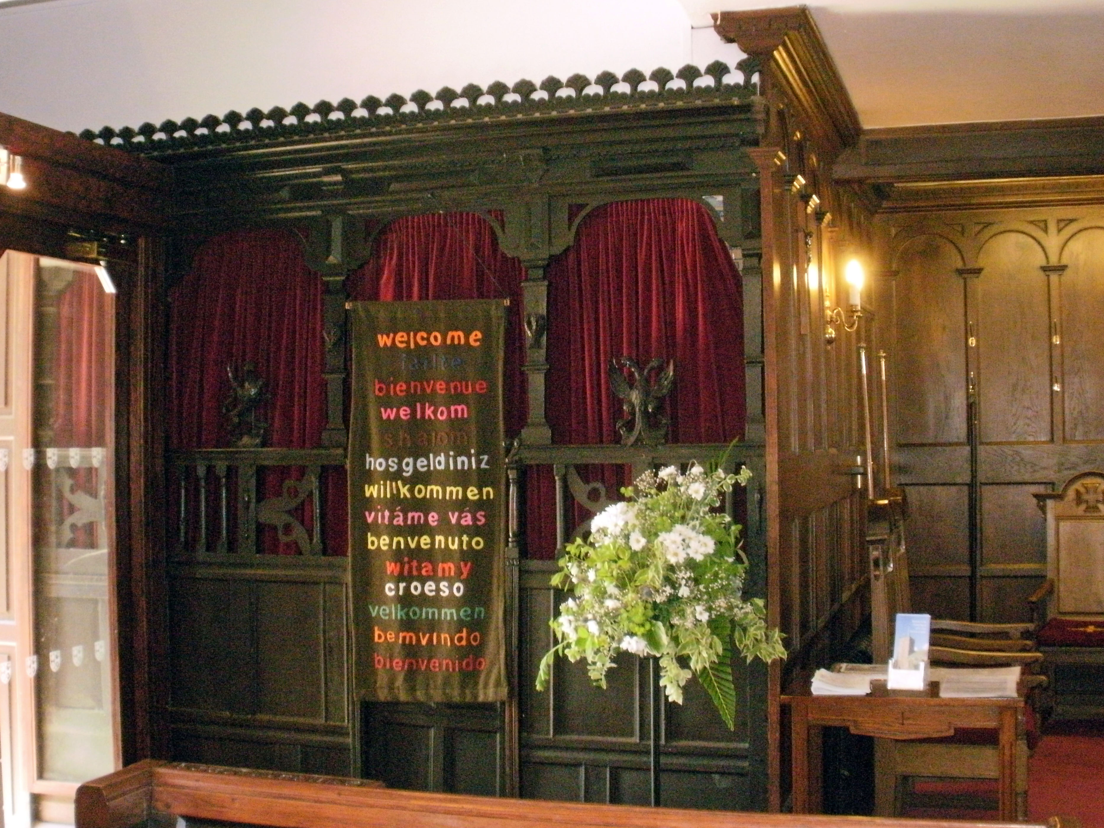 Choir vestry in St Chad's Church, Poulton-le-Fylde. The screen to the choir vestry, formerly a baptistery, was constructed from pieces of the carved oak box pew that belonged to the Fleetwood family. The door is made from a piece of the bos pew that belonged to the Rigby fmaily.